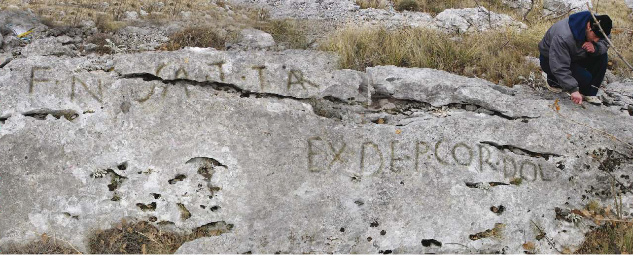 Roman boundary inscription from Bljušcevica near the village of Rastovac